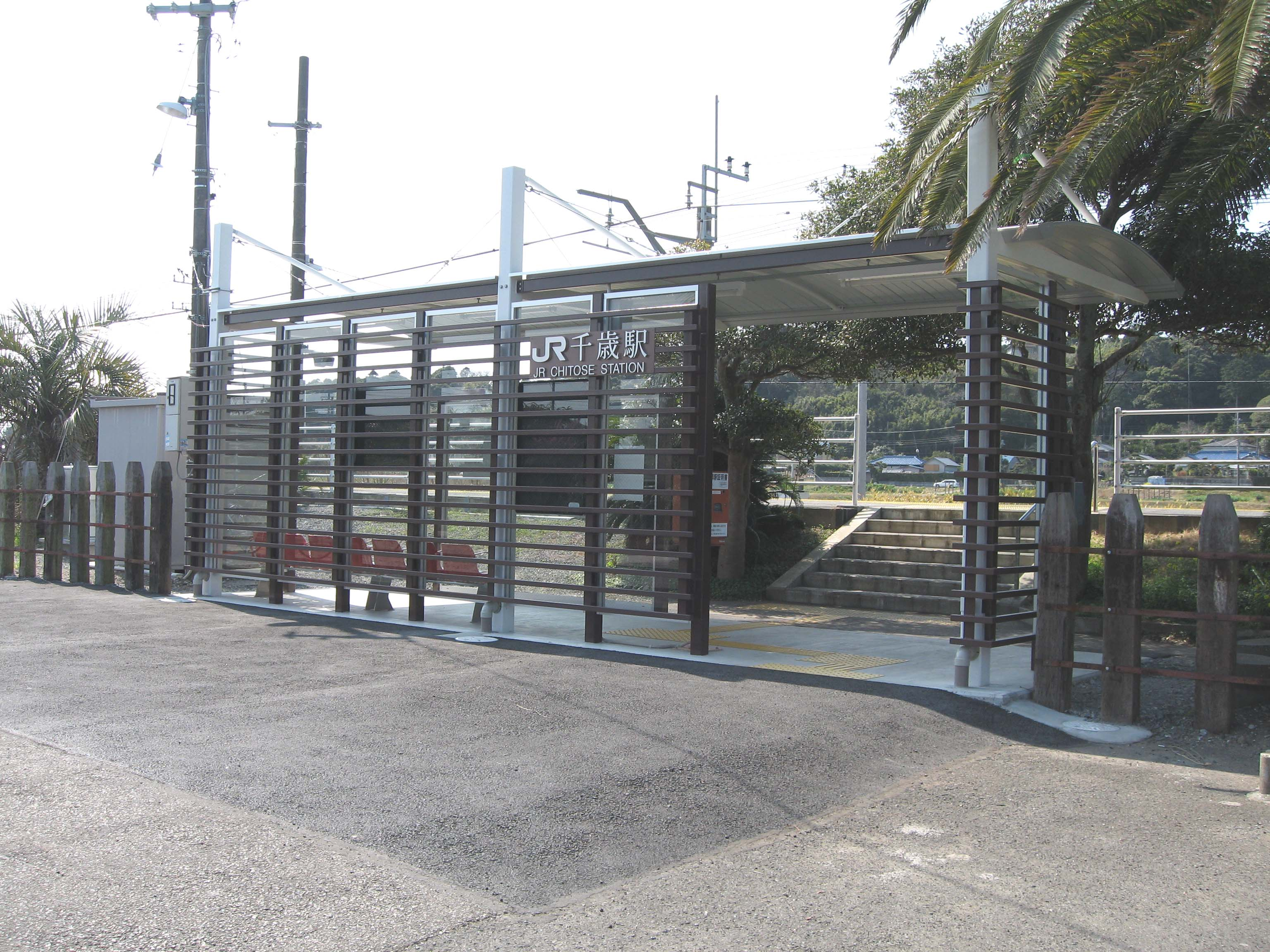 Chitose Station, Uchibo Line, Chiba, Japan